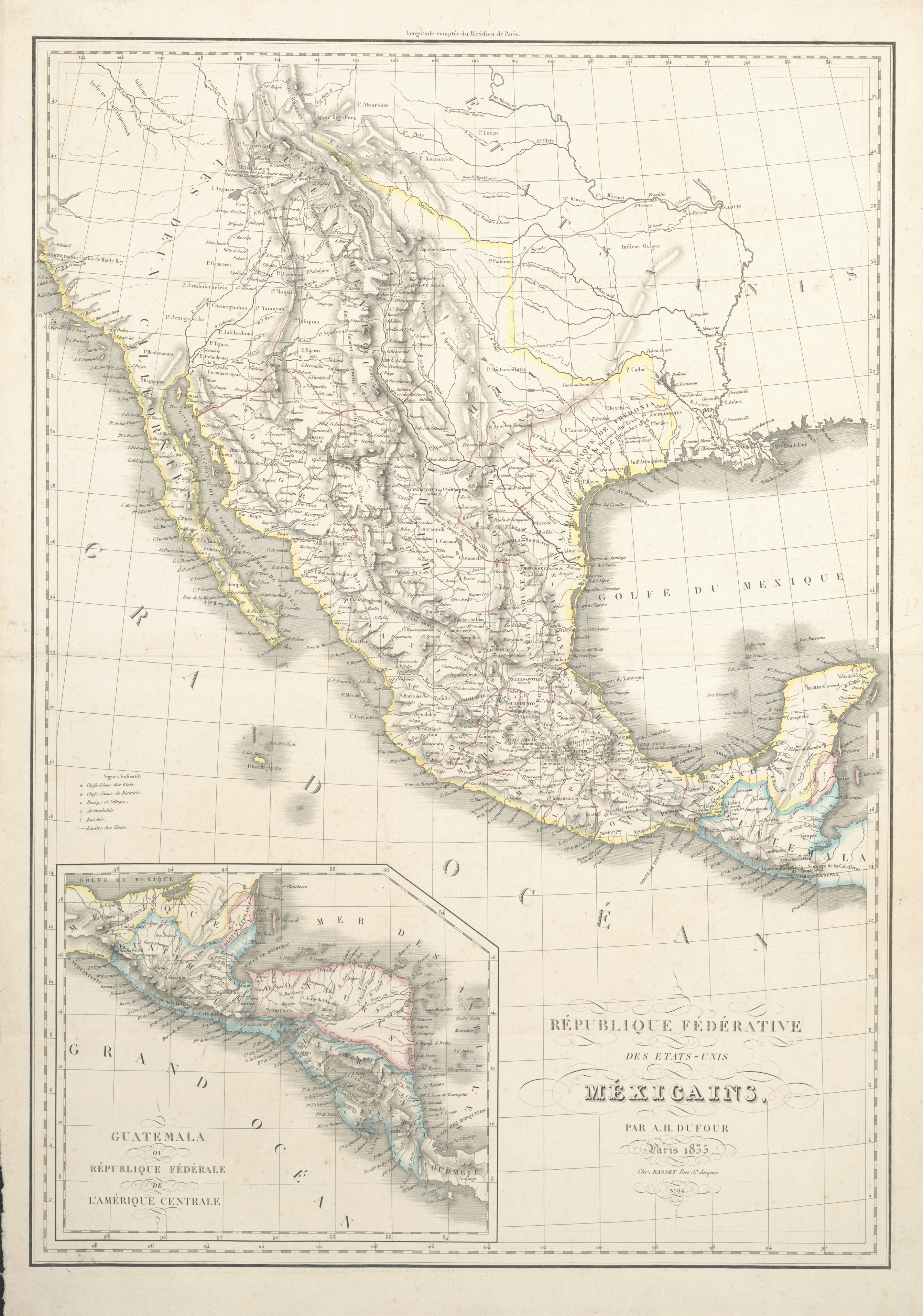 Interestingly, the short-lived Fredonian Rebellion of 1826-1827 – a precursor to the Texas War of Independence – had a longer life in popular culture than in reality, in part thanks to outdated European maps depicting the U.S.-Mexico borderlands. This 1835 map by Dufour bears the following notation in